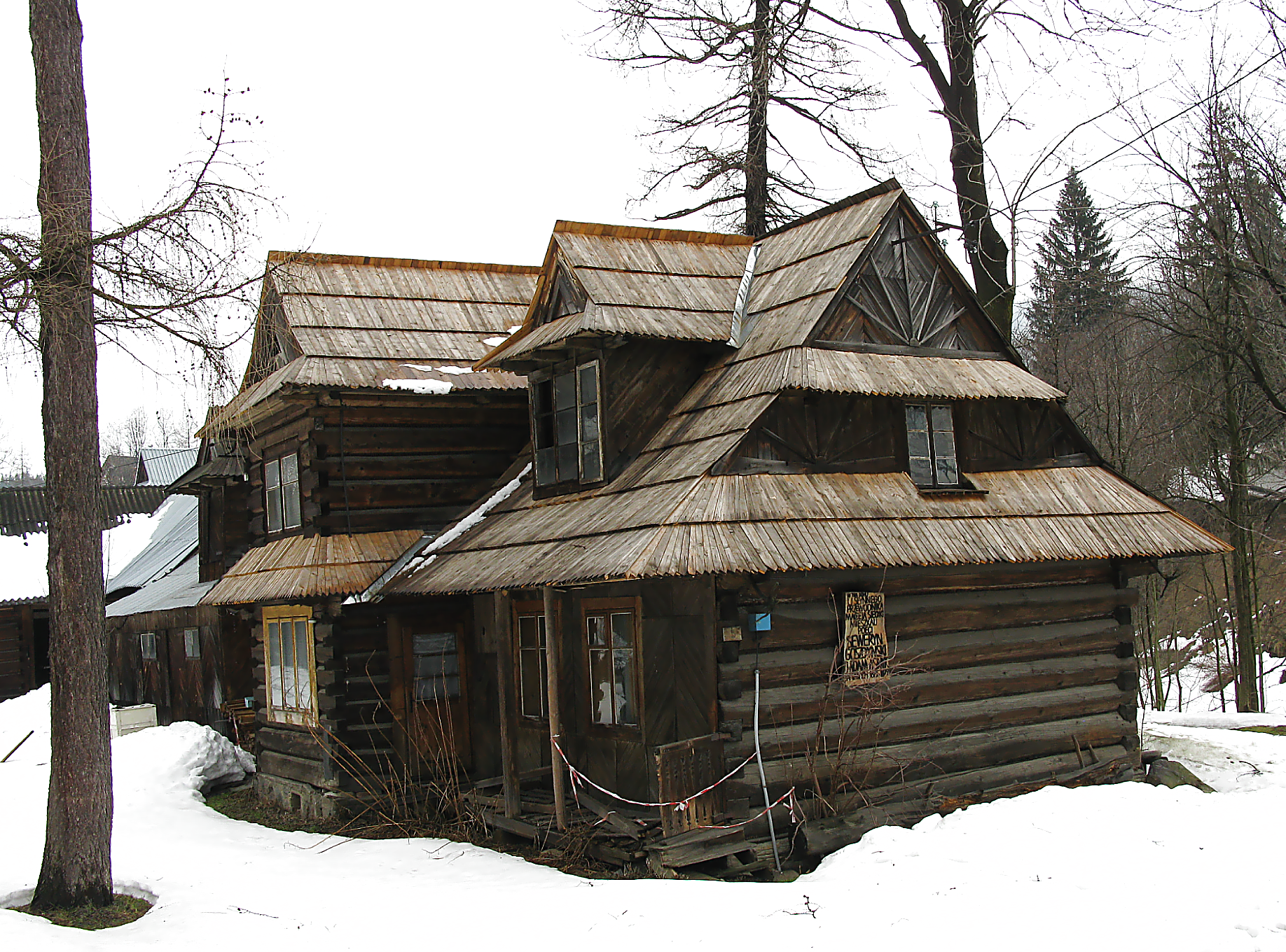 House in Zakopane built c.a. 1860